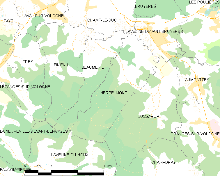 Map of French municipality Herpelmont